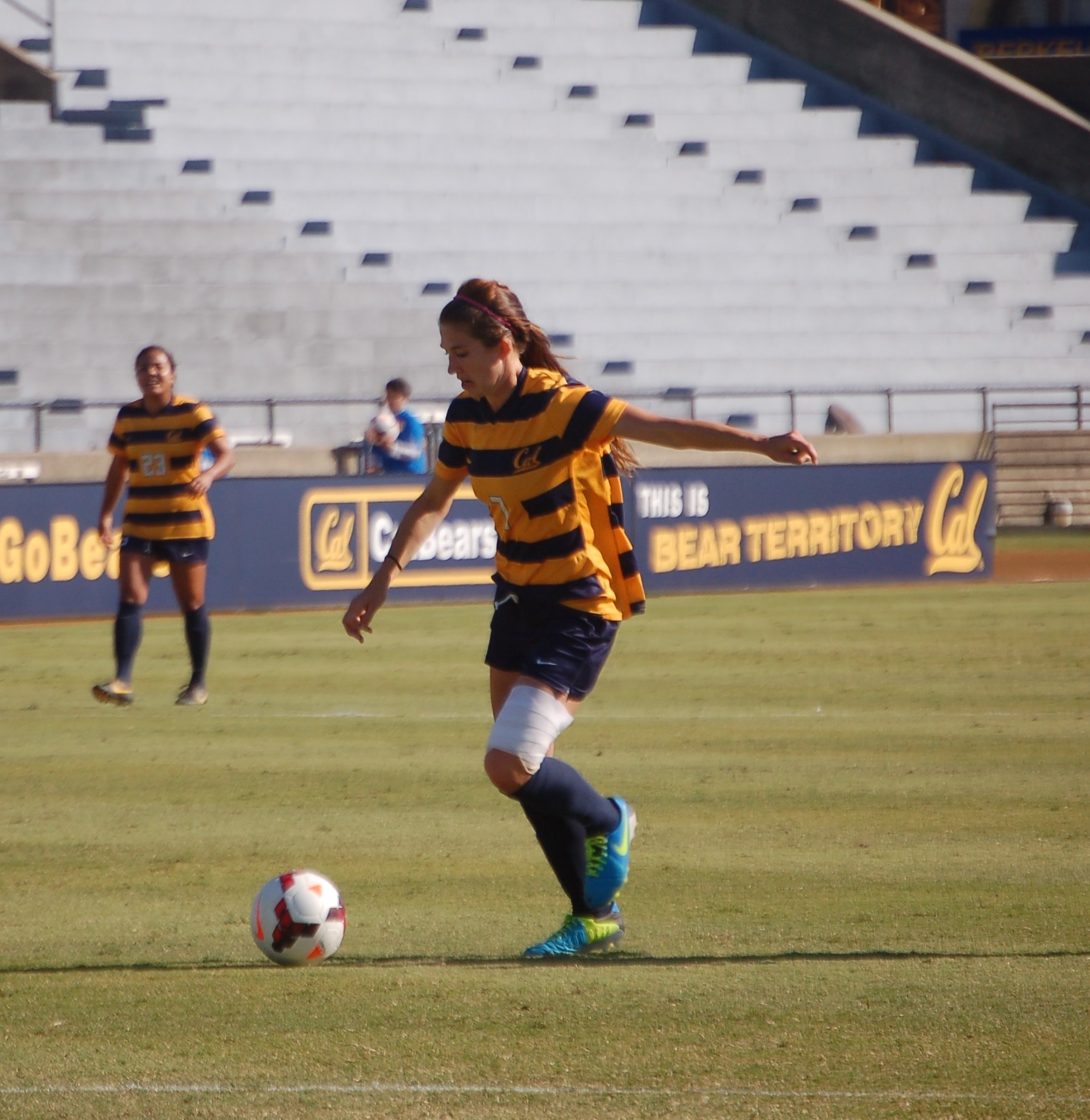 Rachel Mercik playing with the California Bears